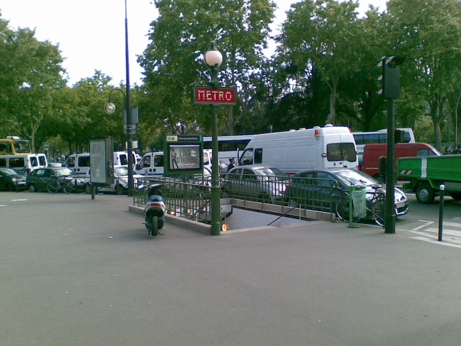 Taken at 5:20 PM on September 09, 2007 - cameraphone upload by ShoZu